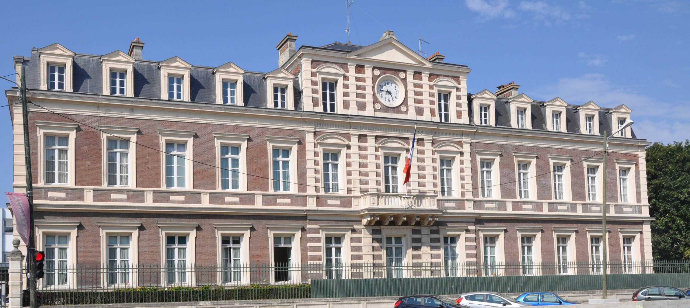 Subprefecture of Le Havre (Normandy, France)Unknown